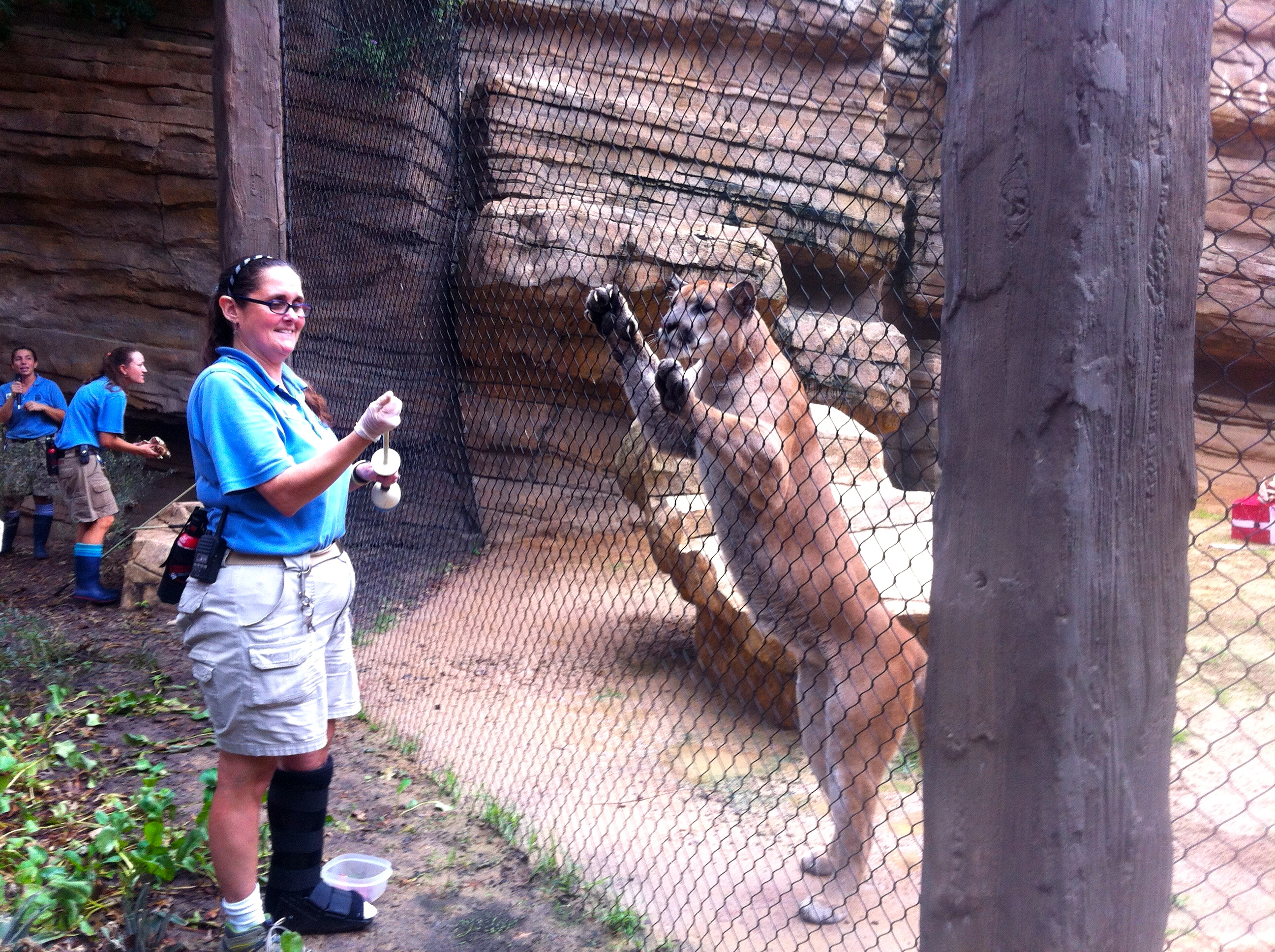 Shasta VI, the live mascot of the University of Houston with his trainer at the Houston Zoo during a feeding at the cougar's second birthday celebration. If published elsewhere, the following attribution credit must accompany this image: "Photo by Brian Reading"